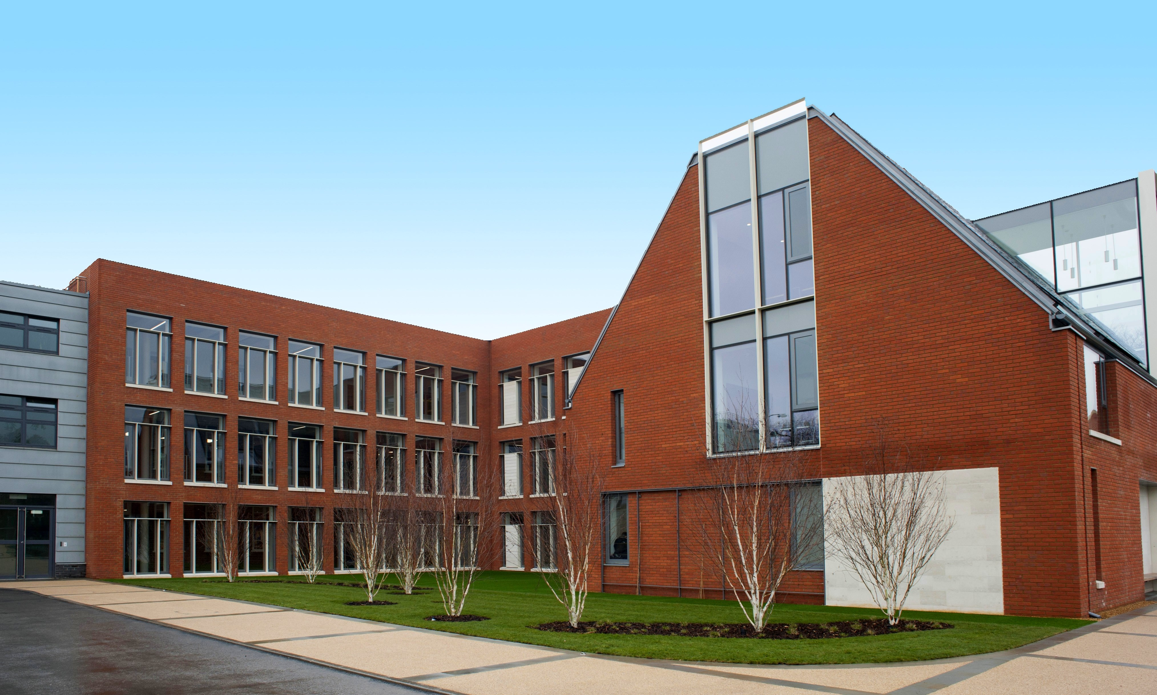 New classroom block opened in March 2016 by Rt Hon Nicky Morgan MP